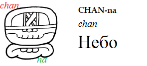 Небо1